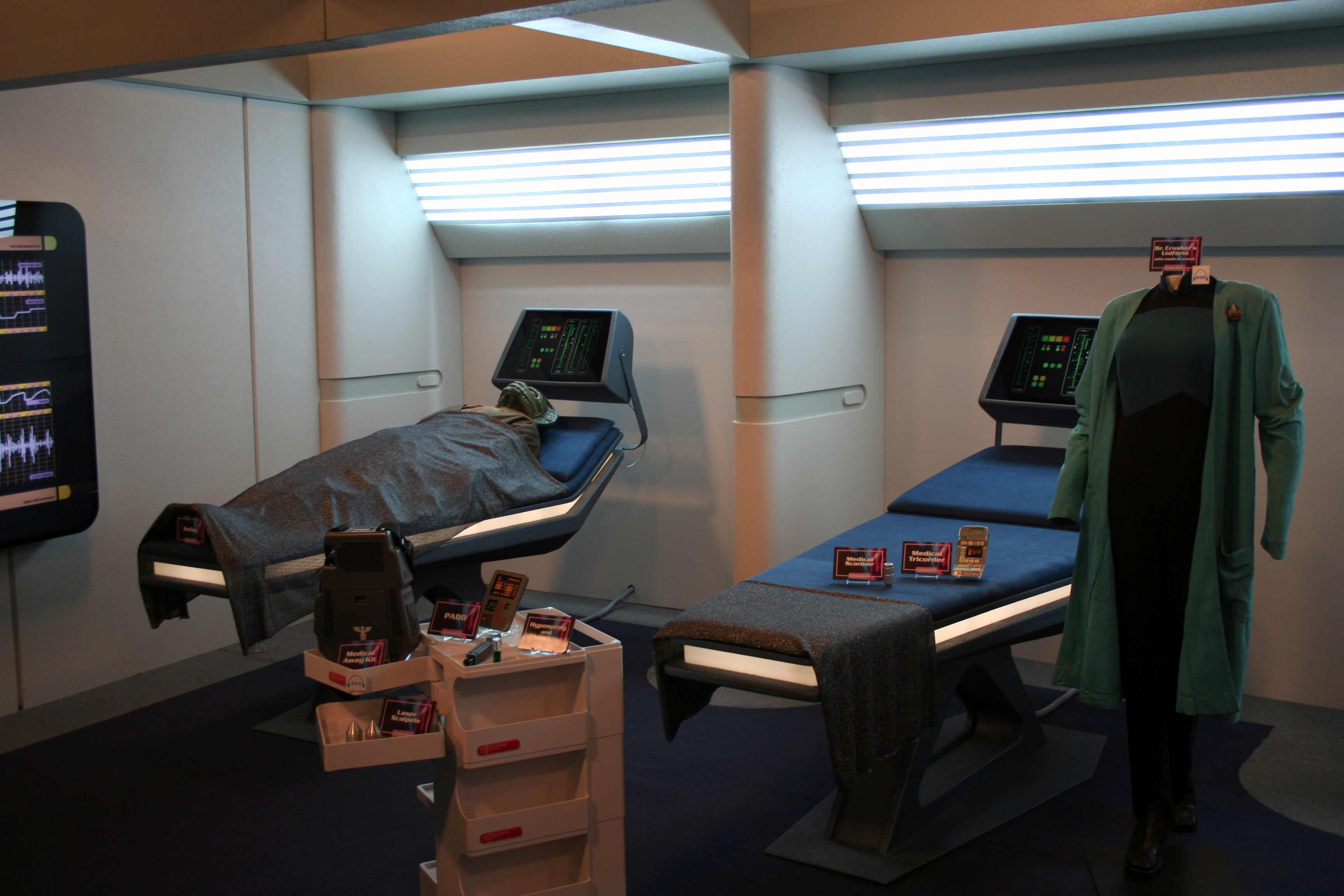 The sickbay of the Enterprise-D from Star Trek: The Next Generation, alongside Dr Crusher's uniform used from season three onwards.